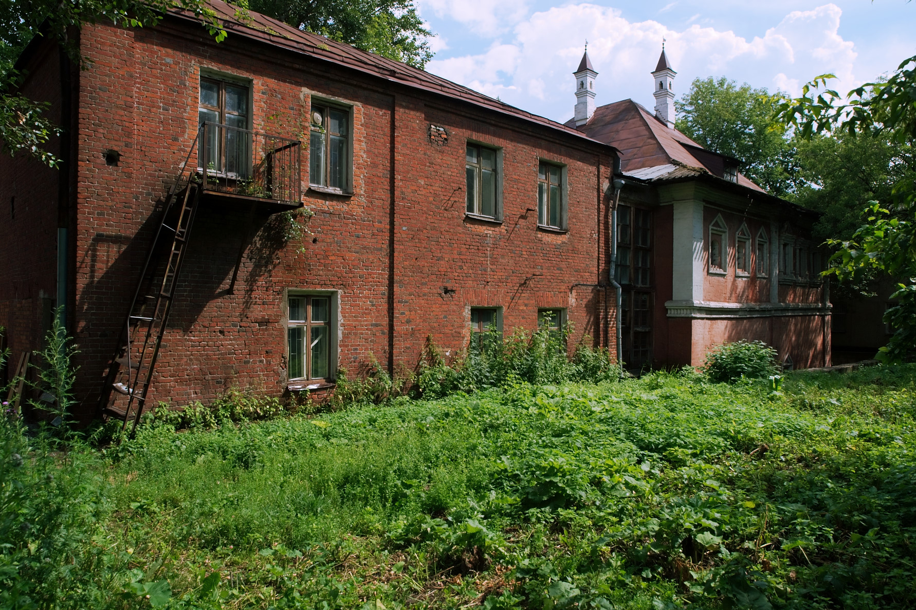 Moscow, Kozhevnicheskaya Street. 16th-17th century house (right).